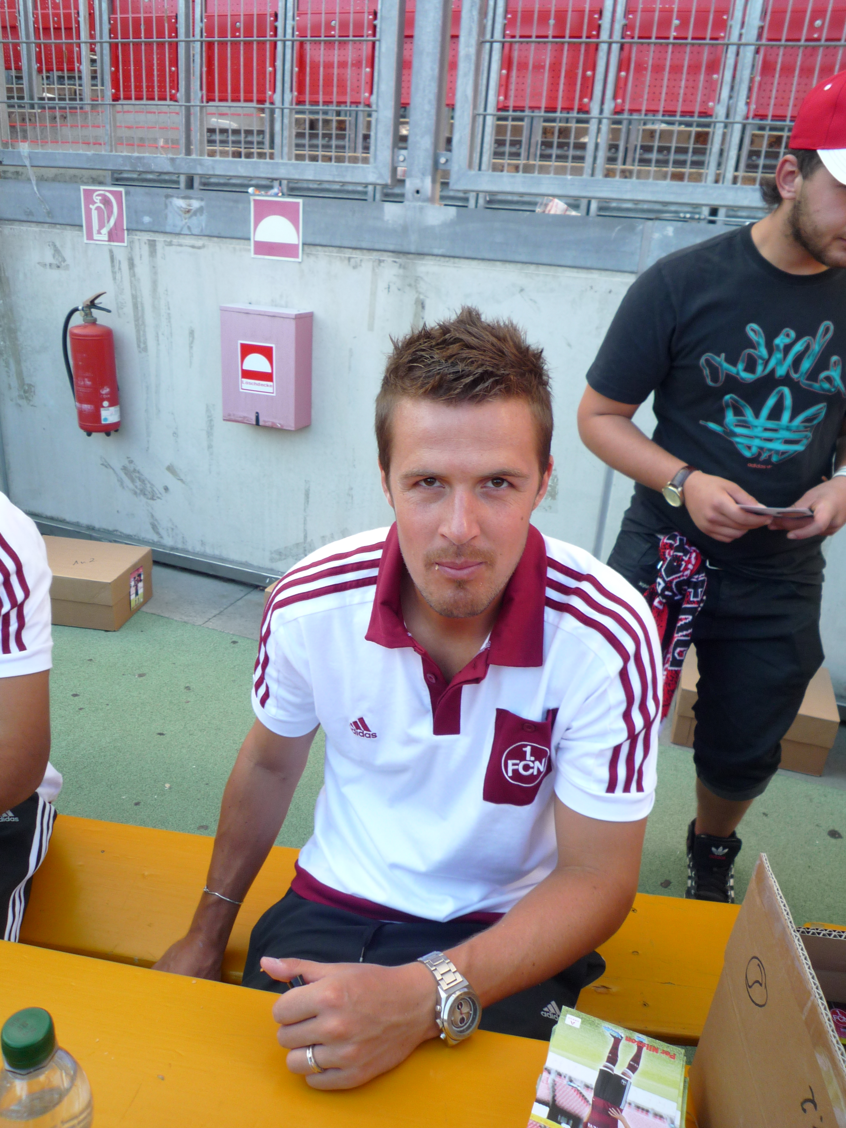 Per Nilson